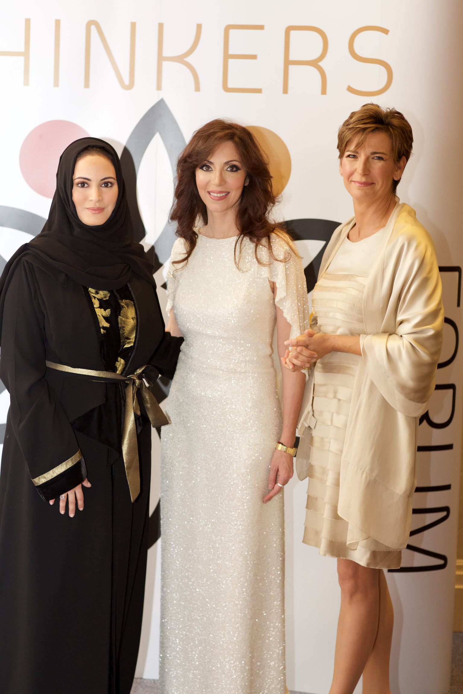 Dubai, UAE - November 2014: Elizabeth Filippouli with CNN's Becky Anderson and Entrepreneur & Philanthropist Muna AbuSulayman